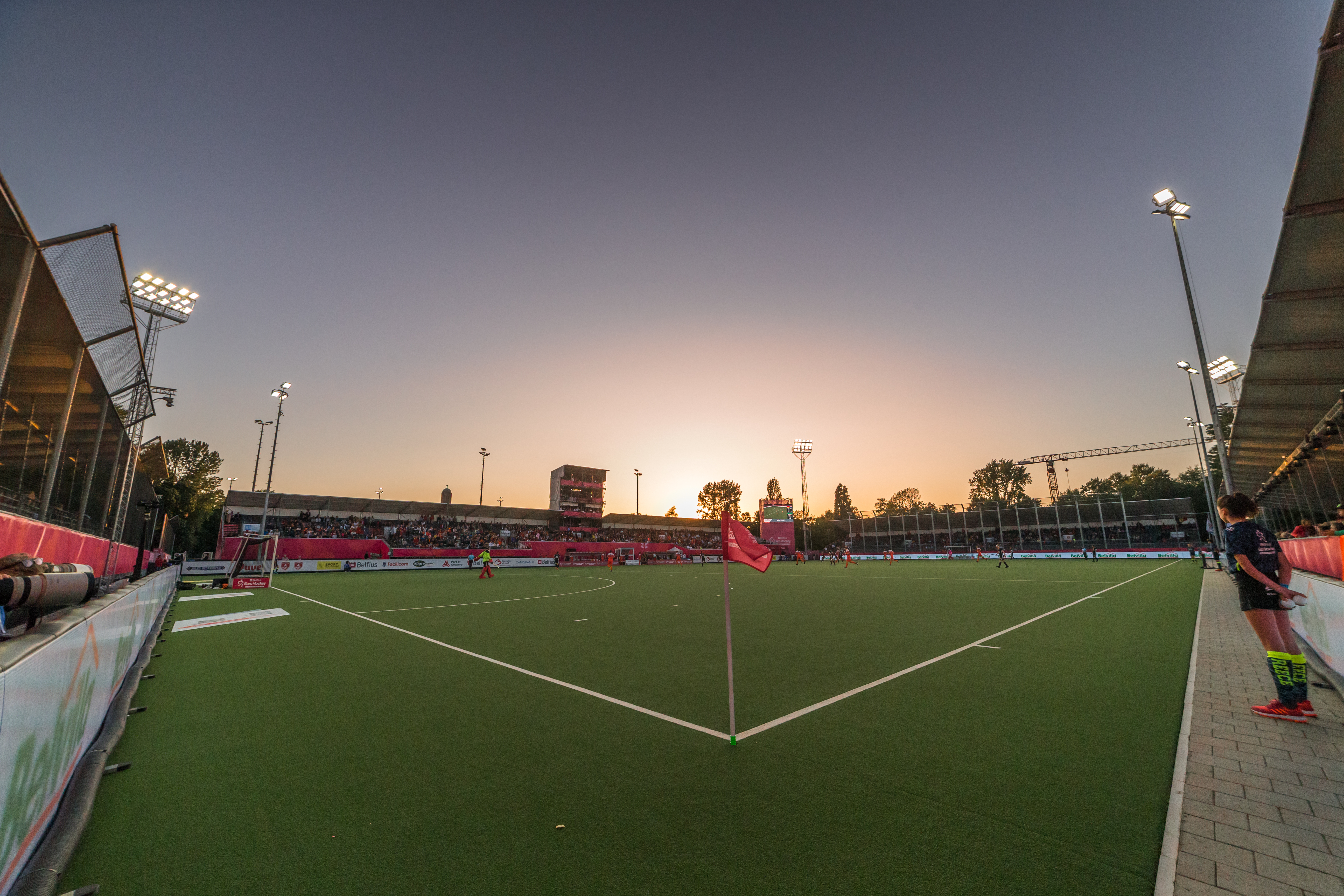 Corner view of European field hockey championship stadium in Antwerp, Belgium 2019